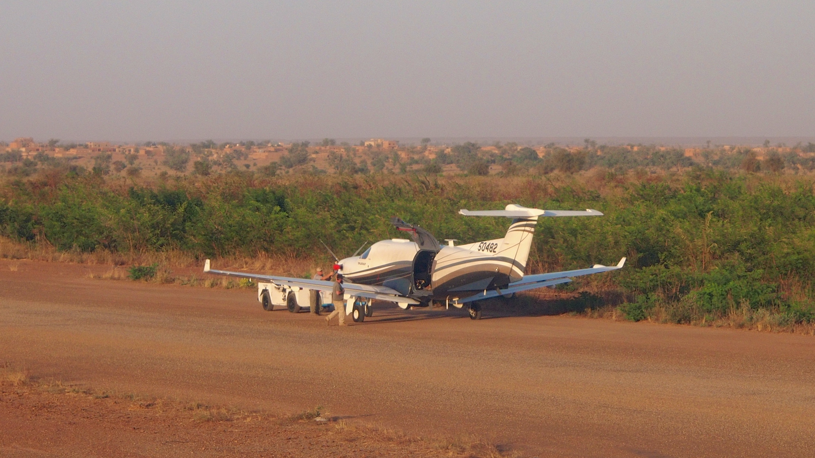 USAF U-28A (modified Pilatus PC-12) at the Airport of Niamey, Niger